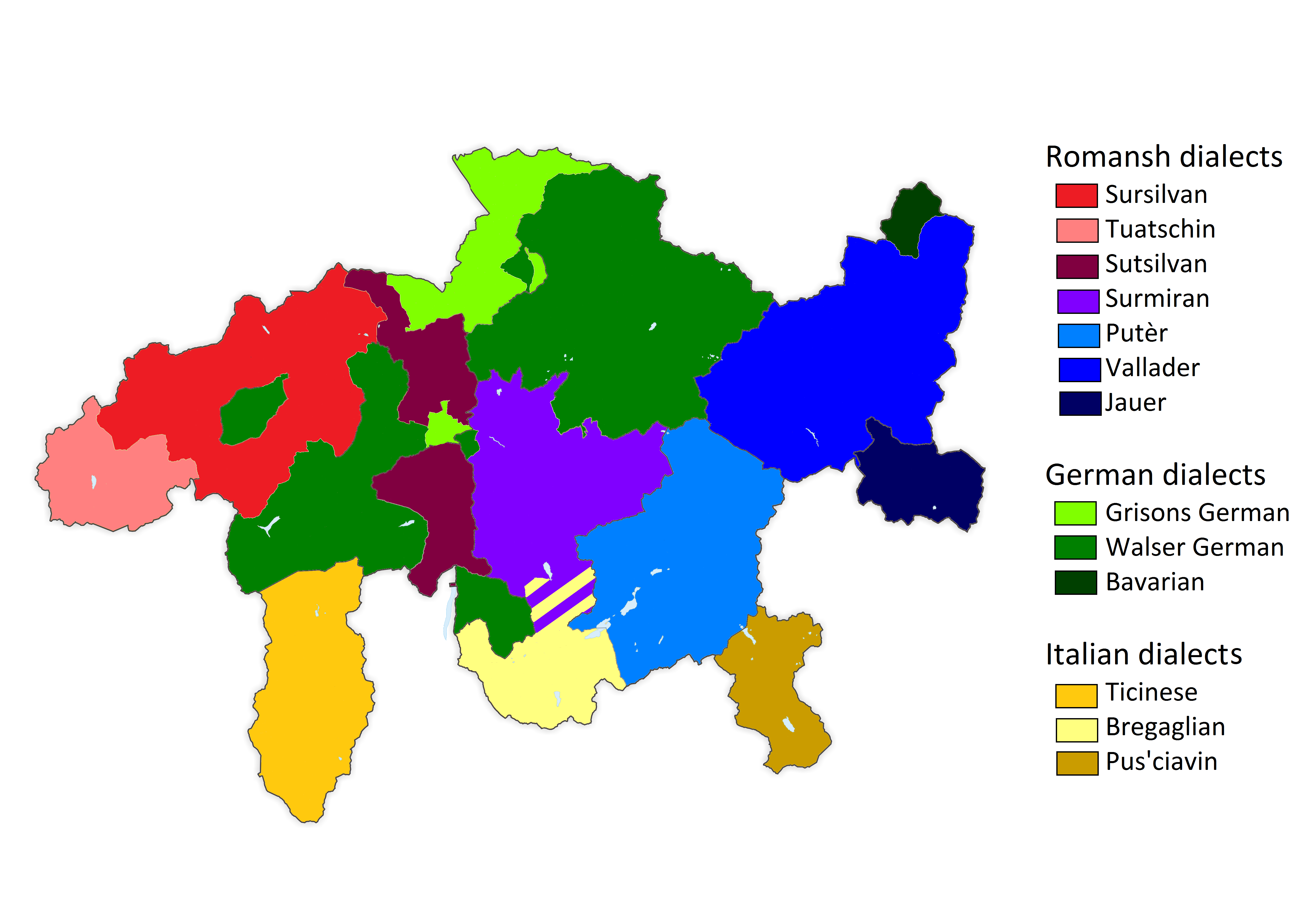 Languages and dialects of the Swiss Canton of Grisons (Graubünden).